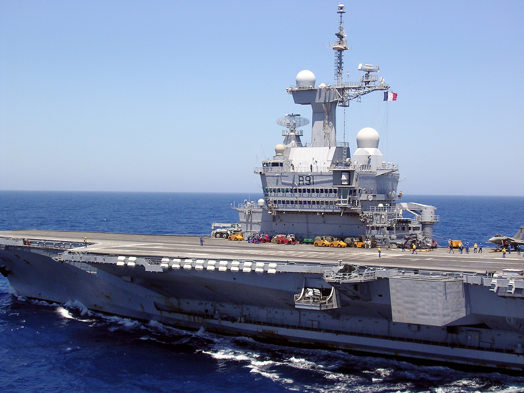 Nuclear aircraft carrier Charles de Gaulle (R 91)